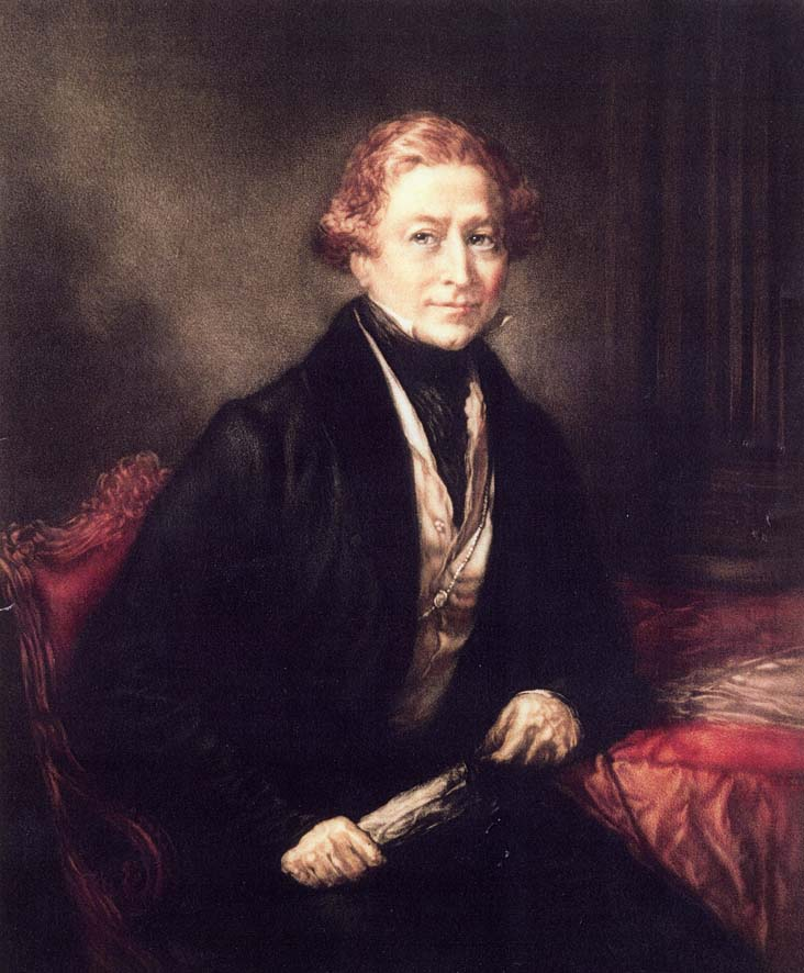 Robert Peel